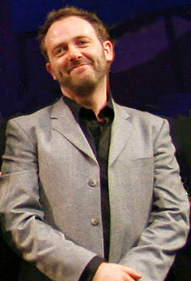 Nestroy-Theaterpreis 2008